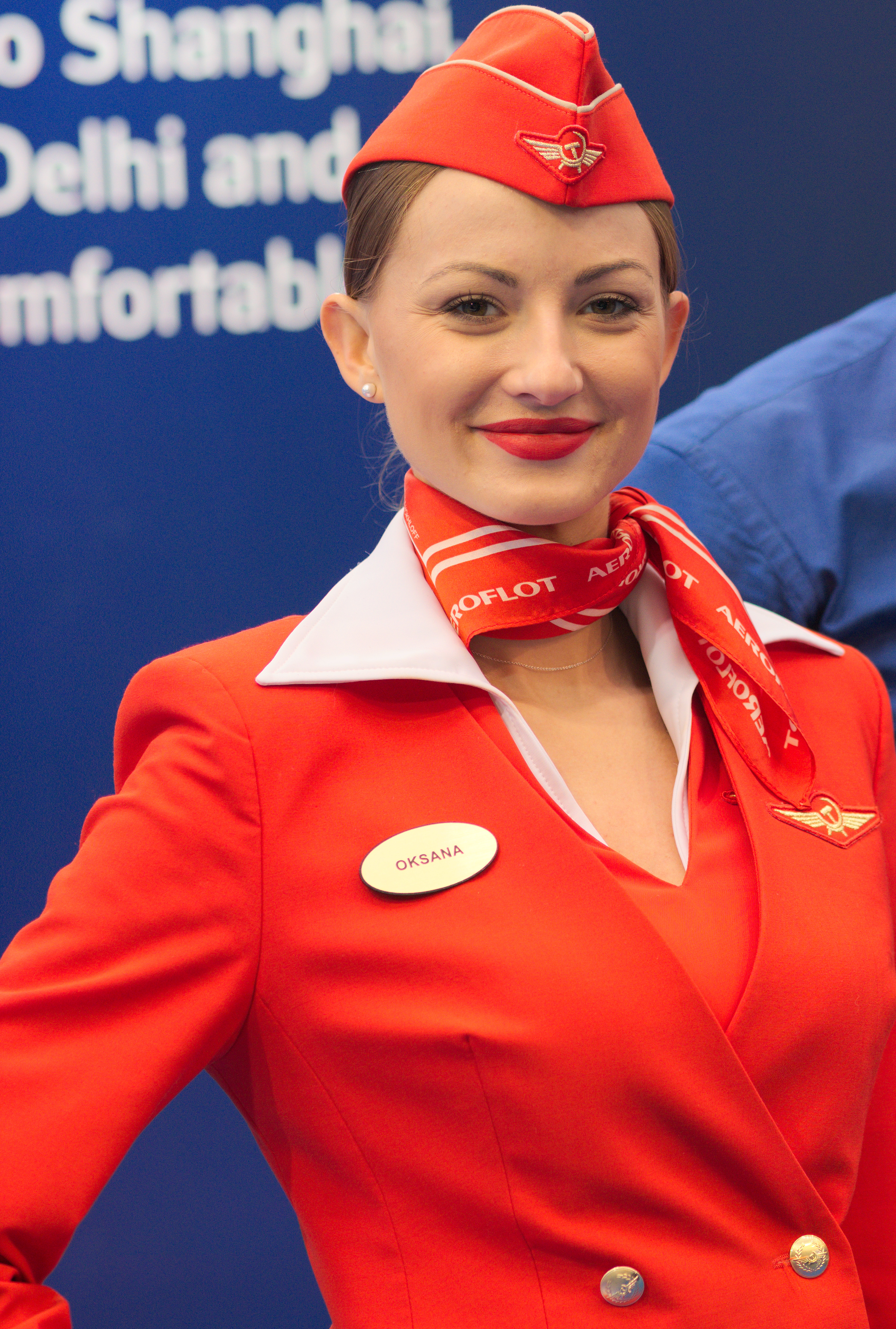 Aeroflot flight attendant/hostess. Belgrade, Serbia. This photograph was taken with a Panasonic Lumix DMC-G85/G80